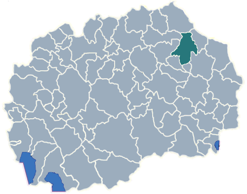 locator map of Kočani municipality, Macedonia